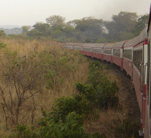 Train to N'Gaoundere